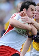 Tyrone GAA star, Davy Harte